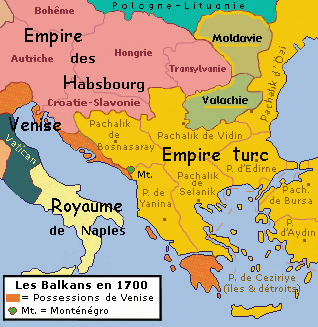 Historic map of Balkan peninsula, 1700